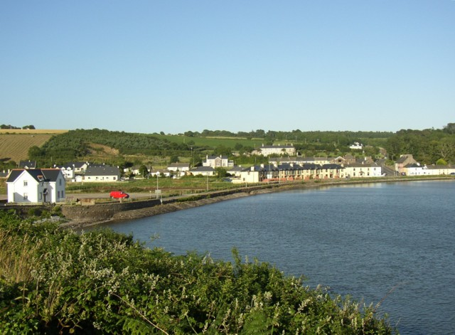 Arthurstown, Co. Wexford. A view of the bay.